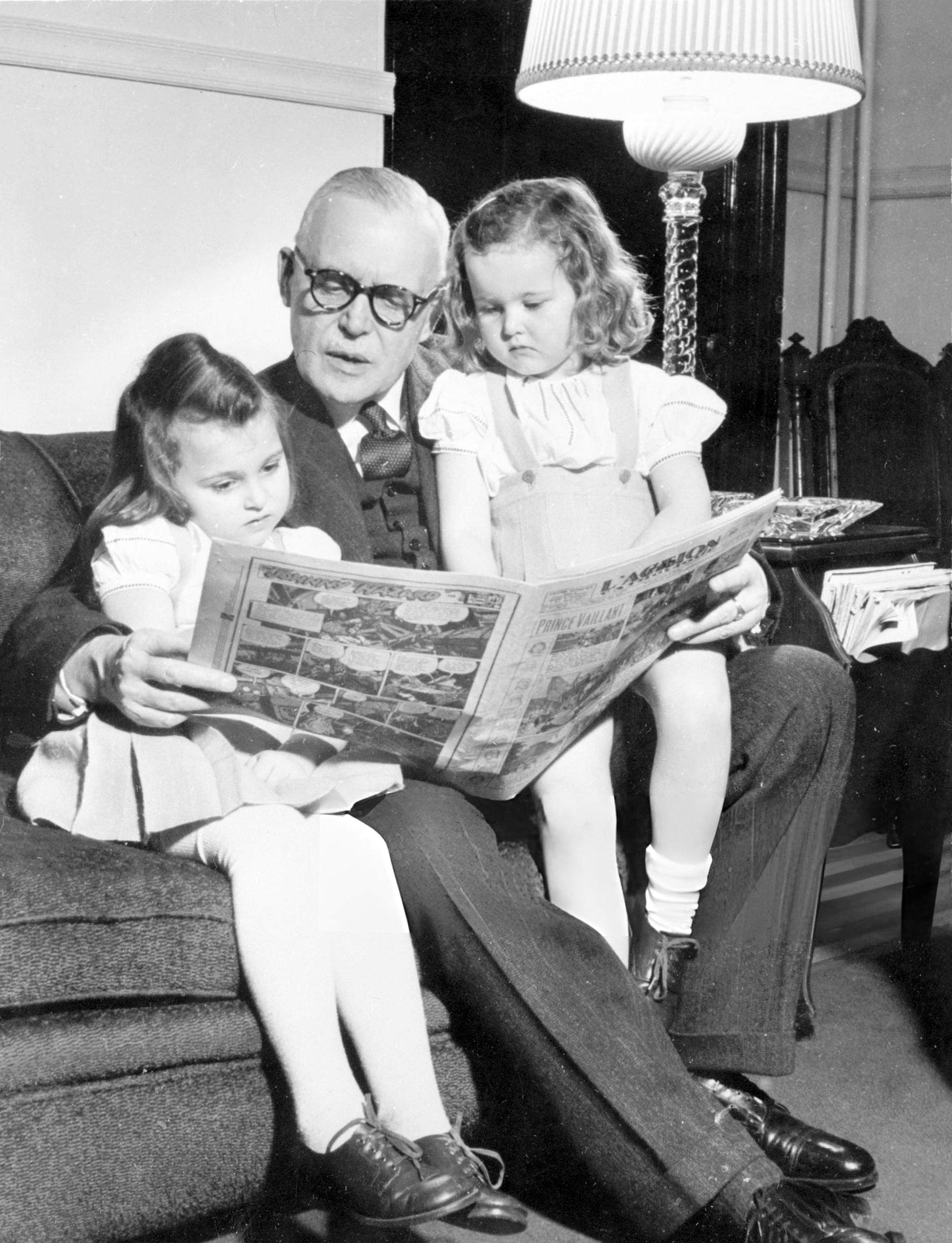 Louis St. Laurent with his grand children at an Easter family gathering